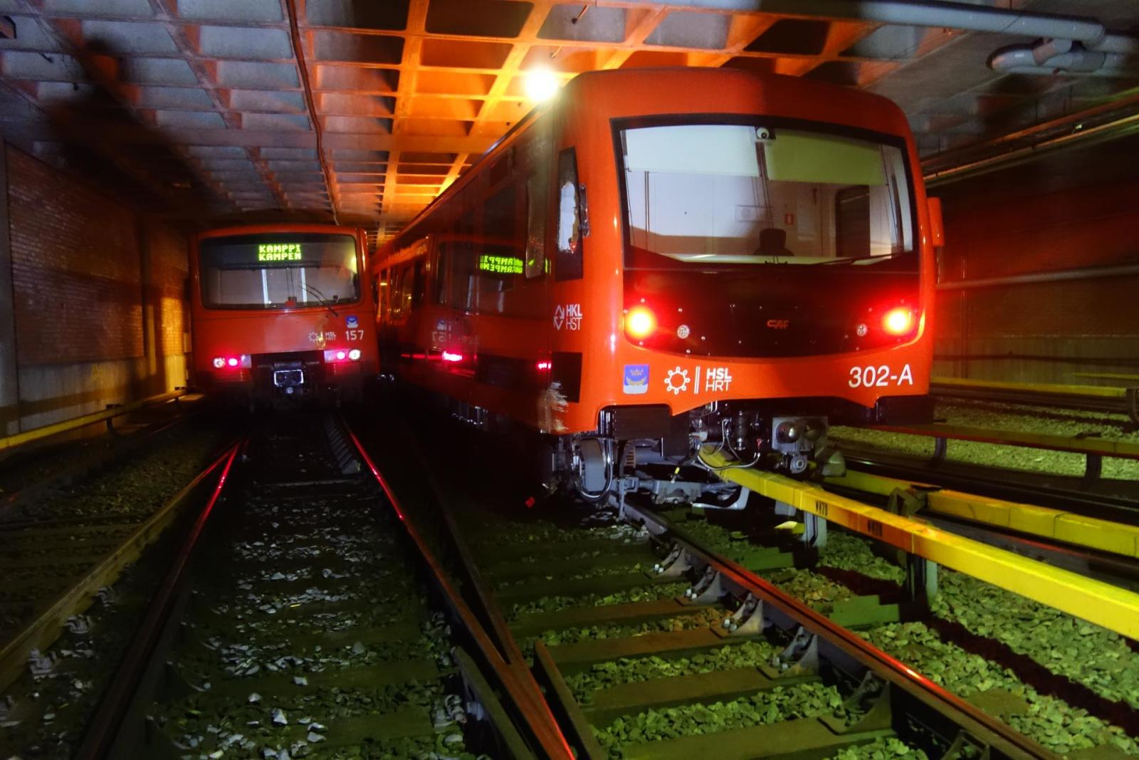 Photograph of the two Helsinki Metro trains (Nos. 157 and 302) that collided at Itäkeskus station.